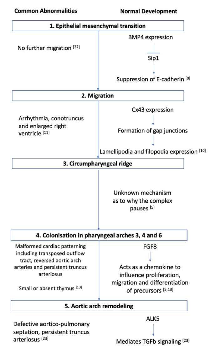 This flowchart lists the five processes that are critical for cardiac development from the cardiac neural crest cell complex. Listed below each process are the identified signalling molecules and their role during normal development together with common abnormalities that arises during complications. This information was sourced from studies conducted in mice.